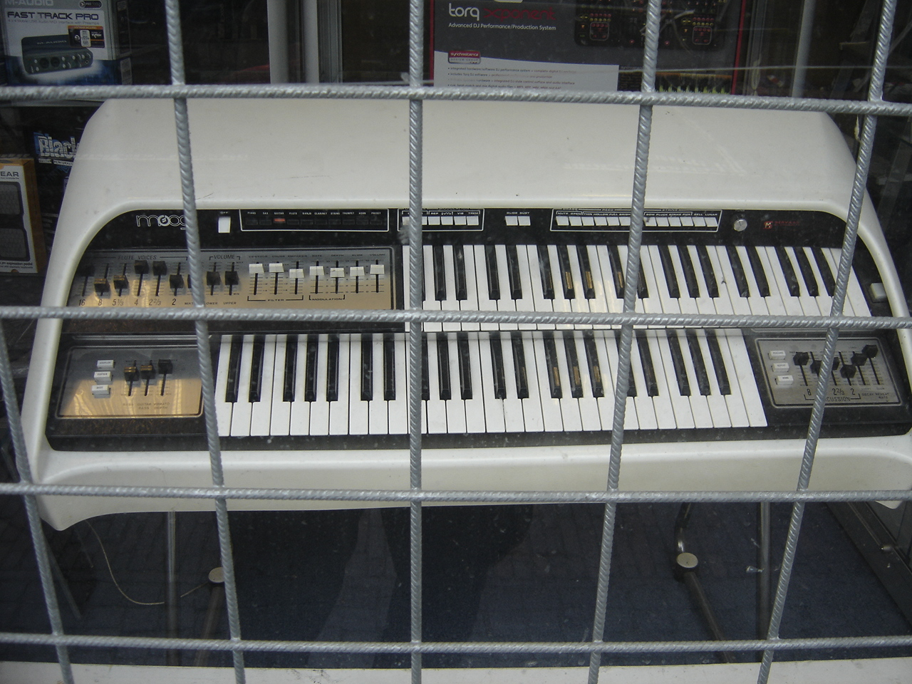 Moog/Cordovox CDX-0652 This store was very cool. Check the vintage moogs and tubes in there. The owner saw me looking in the window and called me into the store. Check the superclean old Moog.